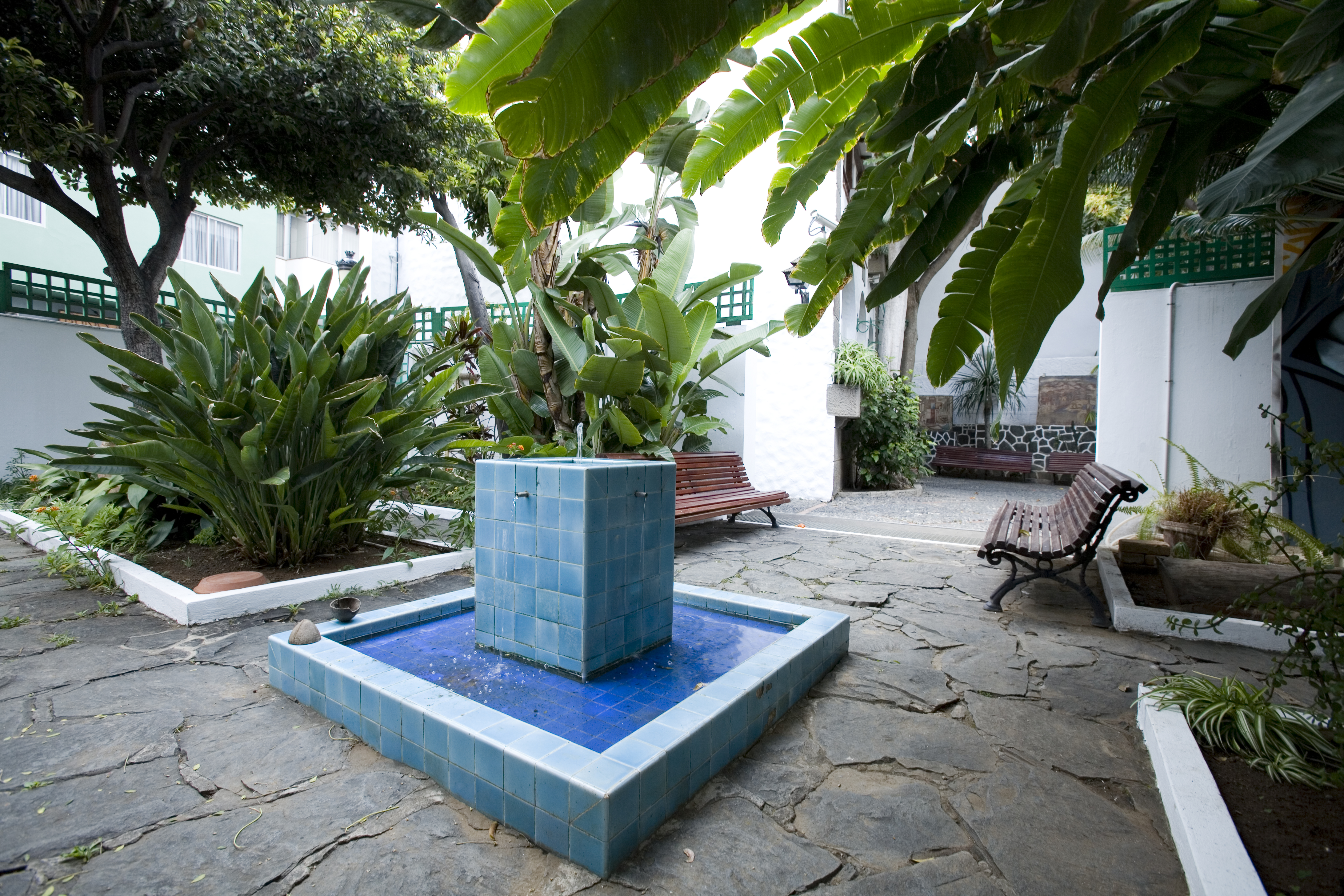 Antonio Padrón